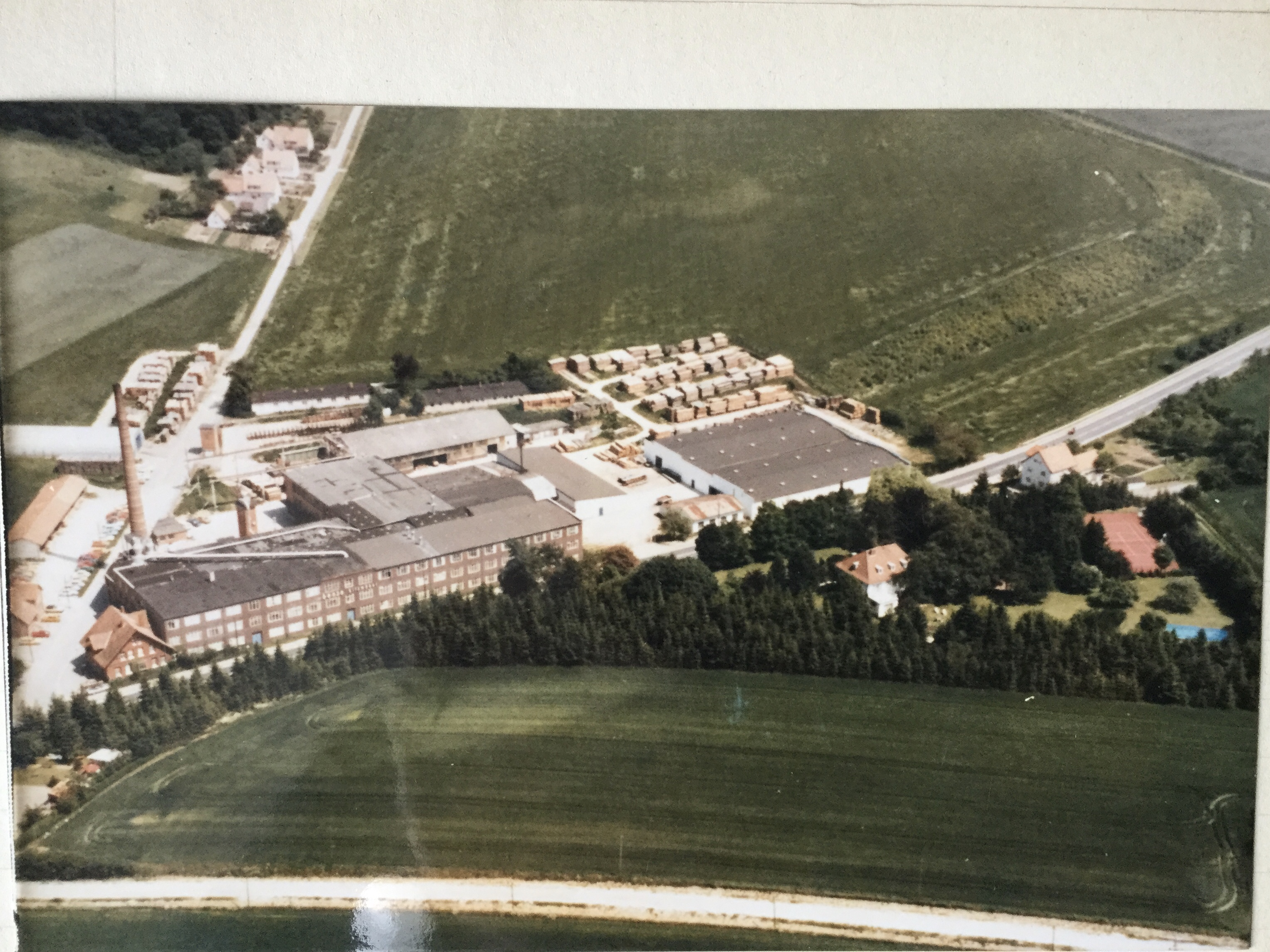 Benze Sitzmöbelfabrik Eimbeckhausen ( von Süd-Westen)